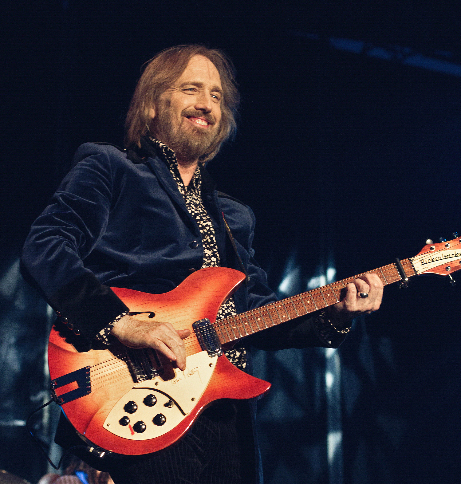 Tom Petty. Faengslet, Horsens, Denmark